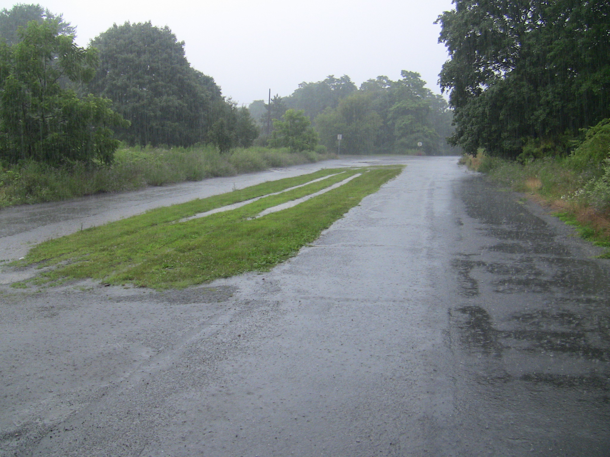 Railroad Avenue in Centralia, photographed during a heavy rainstorm.